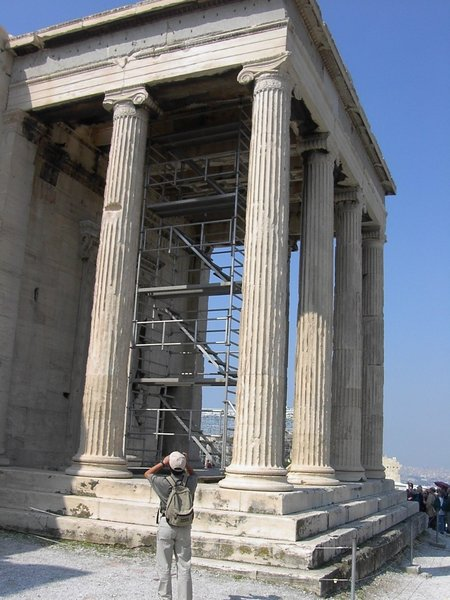 Permission is granted to copy, distribute and/or modify this document under the terms of the GNU Free Documentation License, Version 1.2 or any later version published by the Free Software Foundation; with no Invariant Sections, no Front-Cover Texts, and no Back-Cover Texts. Subject to disclaimers. File history Legend: (cur) = this is the current file, (del) = delete this old version, (rev) = revert to this old version. Click on date to download the file or see the image uploaded on that date. (del) (cur) 10:39, 30 March 2004 . . Adam Carr (279667 bytes) Upload a new version of this file Edit this file using an external application